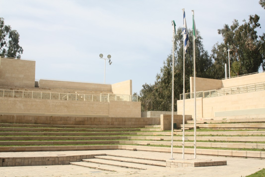 Monument for Israeli Intelligence Community